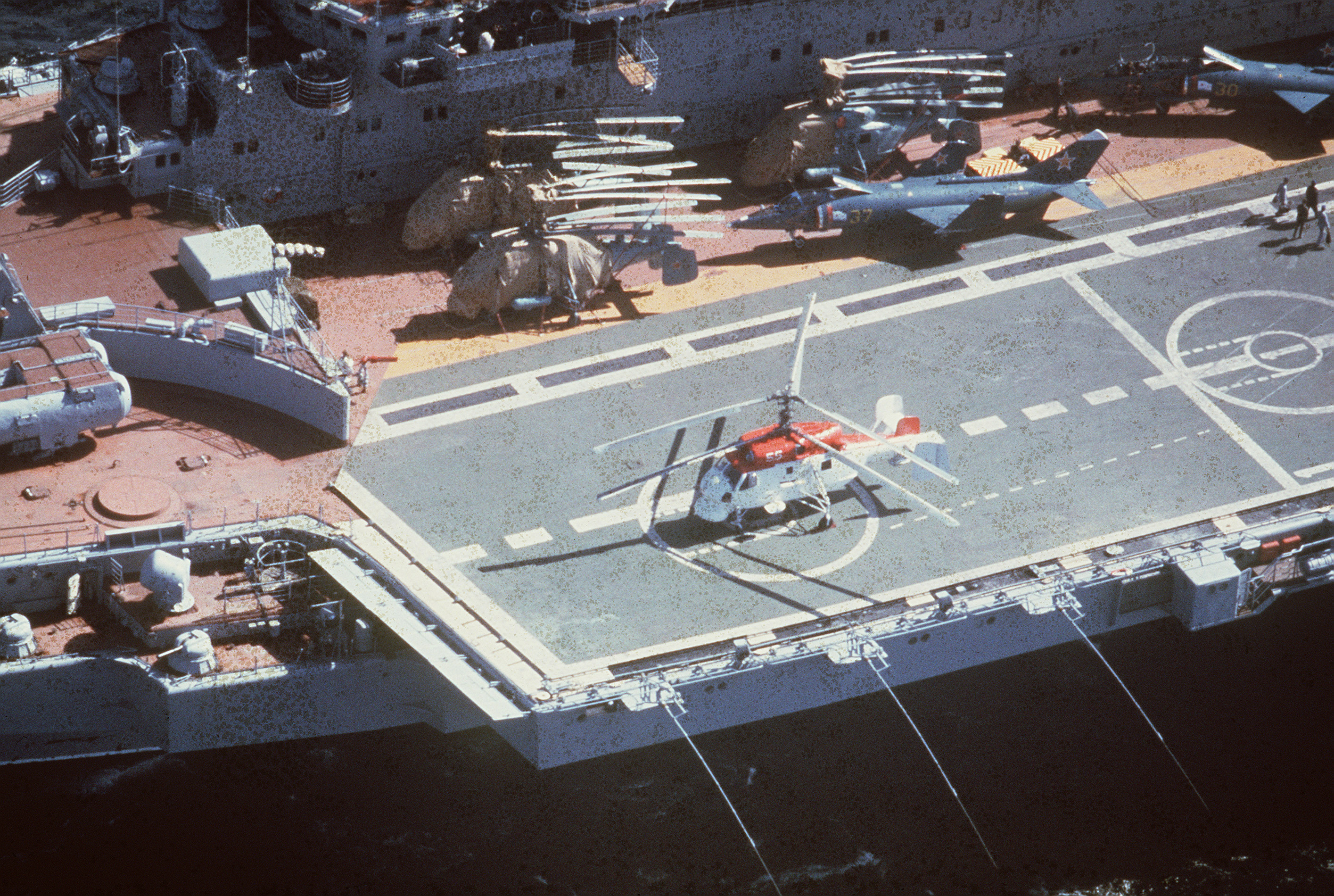 A Ka-25 Hormone C air-sea helicopter aboard the Soviet aircraft carrier MINSK (CVHG).